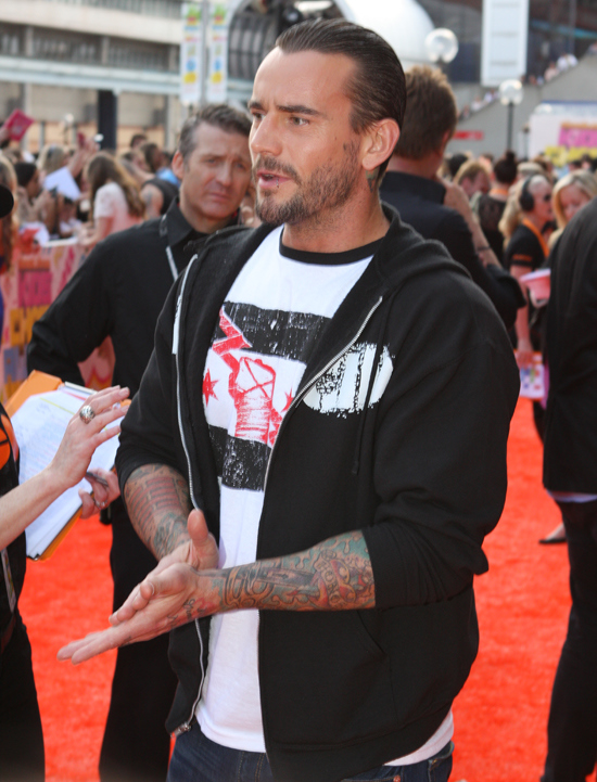 CM Punk at the Nickelodeon Kid's Choice Awards 2011 in Australia